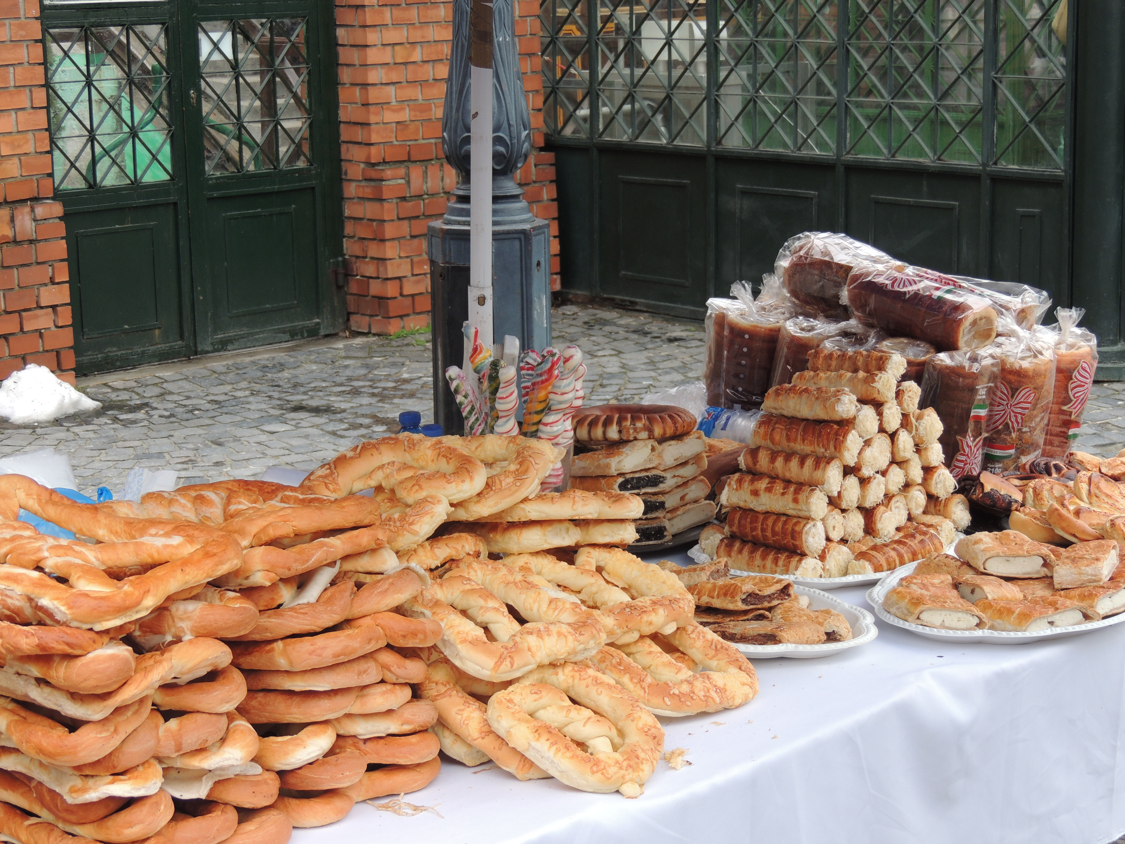 Hungarian Foods in Budapest Hungarian Pretzels (Perec), Cheese Rolls (Sajtos rolo) and Kurtoskalacs at the Budapest Funicular, at the foot of the Buda Castle Hill